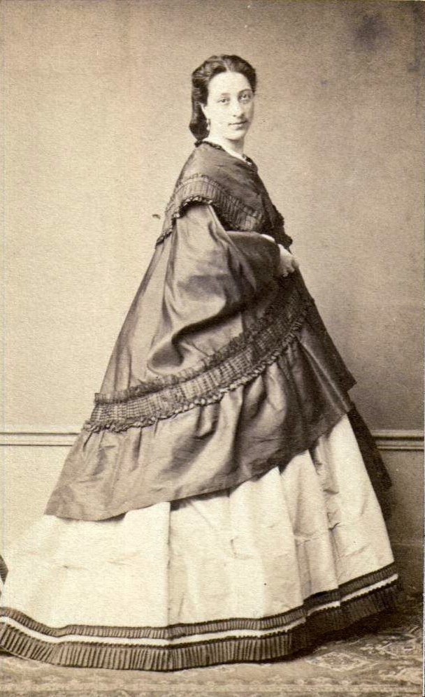 French opera singer Marie Cico (1843-1875)